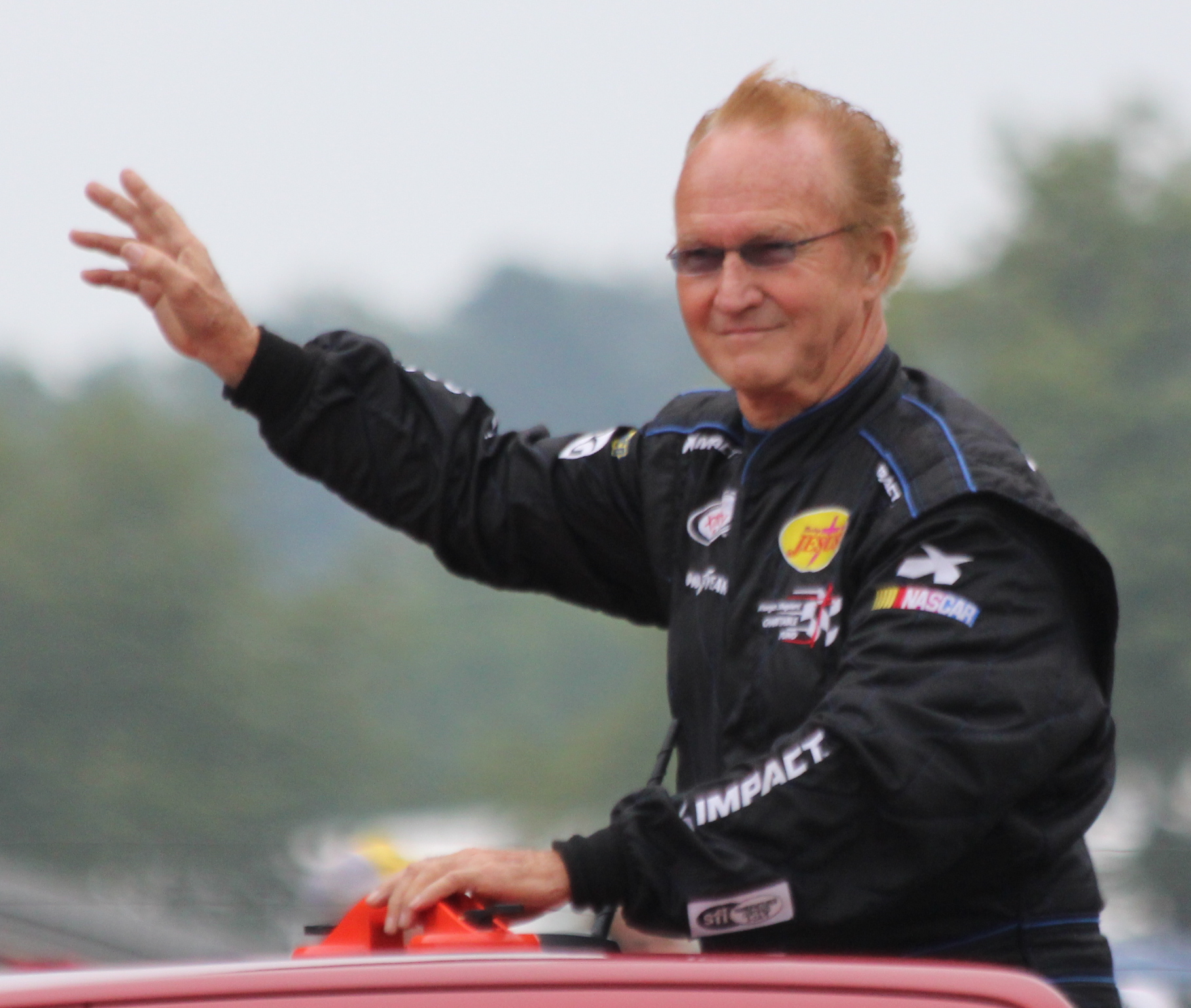 NASCAR driver Morgan Shepherd waves to the crowd during drivers introduction at the Xfinity Series race at Road America.